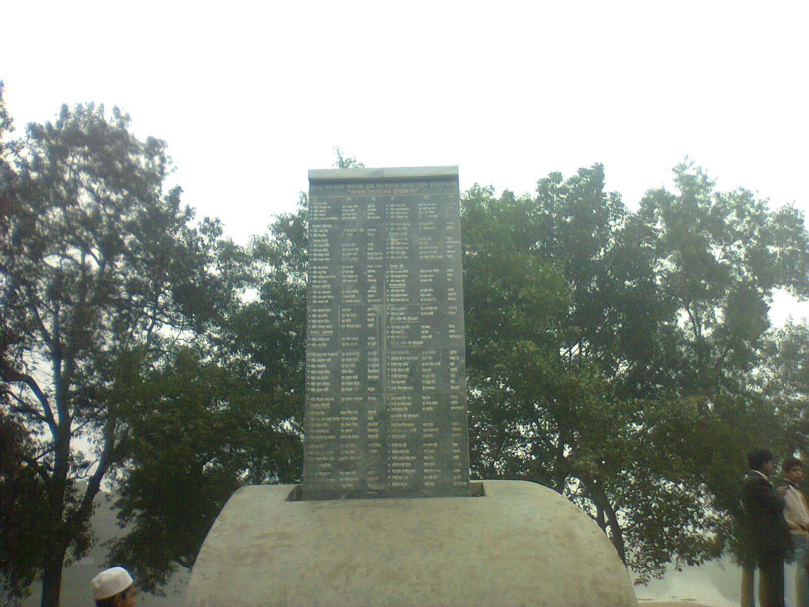 Kishoreganj's Freedom fighter name list